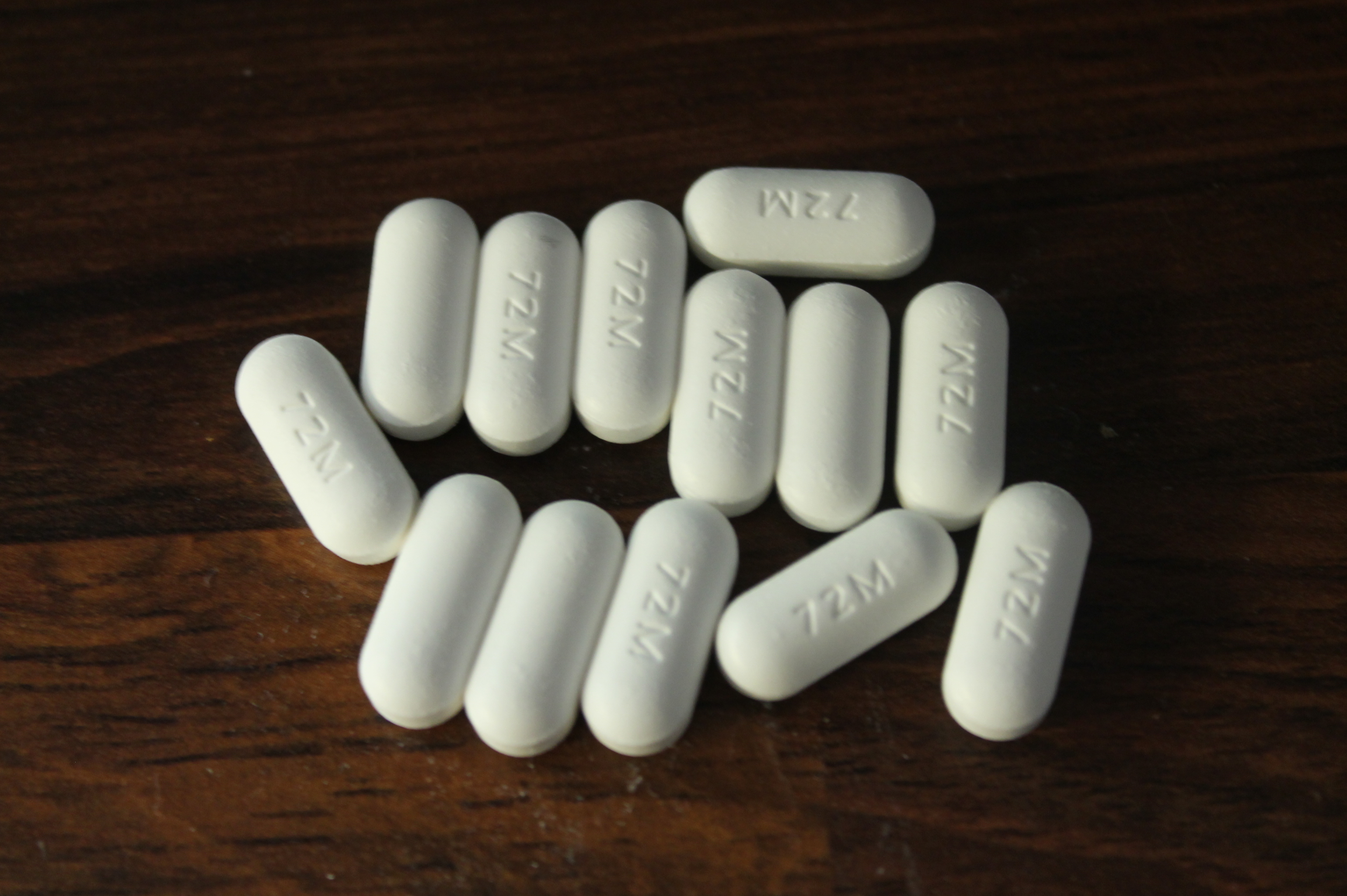 Co-codamol-tablets (30mg codeine, 500mg paracetamol)